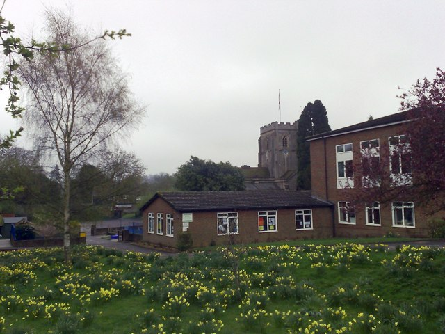 St Mary's School, Northchurch St Mary's School with its church in the background.